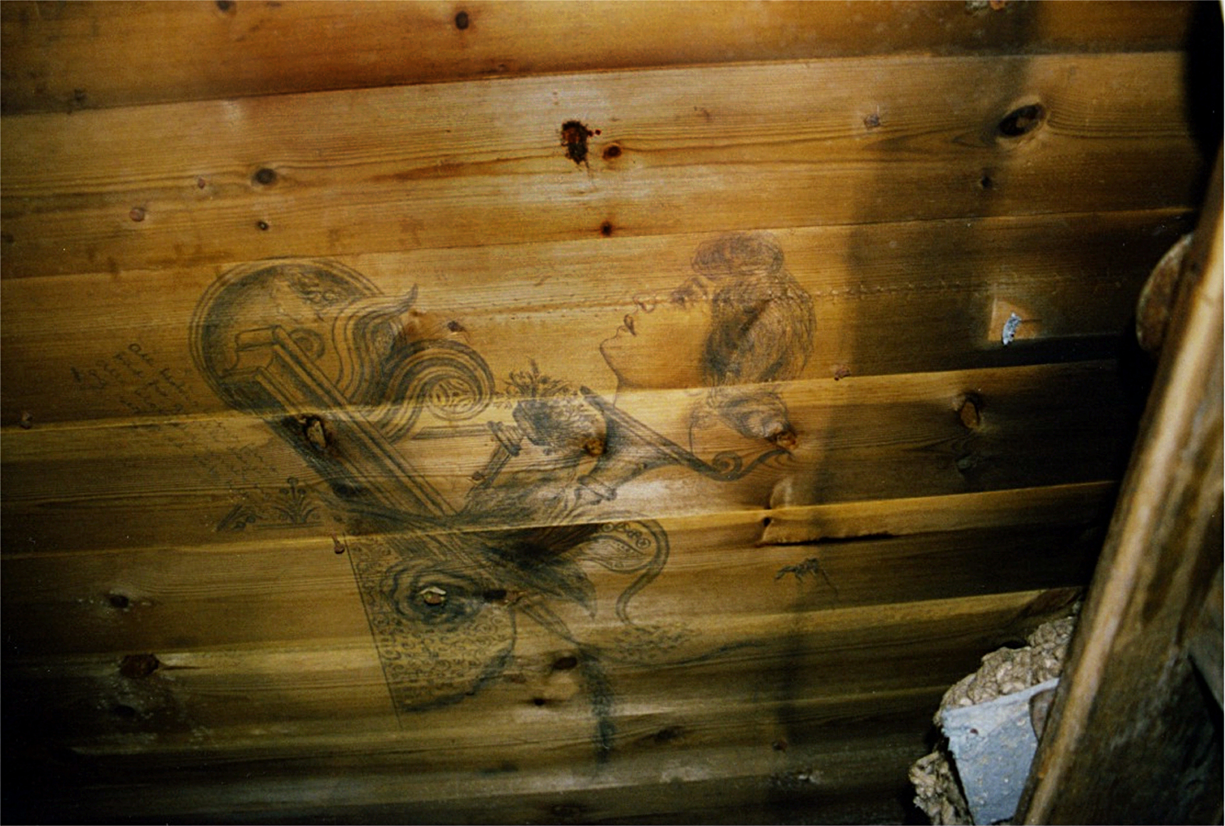 In February 1899, Borchgrevink's party of Southern Cross Expedition landed at Cape Adare - the northeastern most peninsula in Victoria Land, East Antarctica,where they built a prefabricated hut (the first human structure ever built on the Antarctic continent). They wintered at Cape Adare and were picked up in January of 1890 by Southern Cross ship. At the image you could see a drawing above Kolbein Ellefsen's bed in Borchgrevink's Cape Adare Hut. Ellefsen was one of the members of the Southern Cross Expedition. He was a good sailor and also the Cook on the expedition and a talented artist. While looking at the image, please, try to imagine a young man (Kolbein Ellefsen was in his yearly twenties) during unforgiving polar night, not knowing what's going to happened next (one of the expedition members did not make it), who used a kerosene lamp or a candle with its ghostly light to draw portrait of a beautiful woman above his bed. The image was taken in January of 2001.